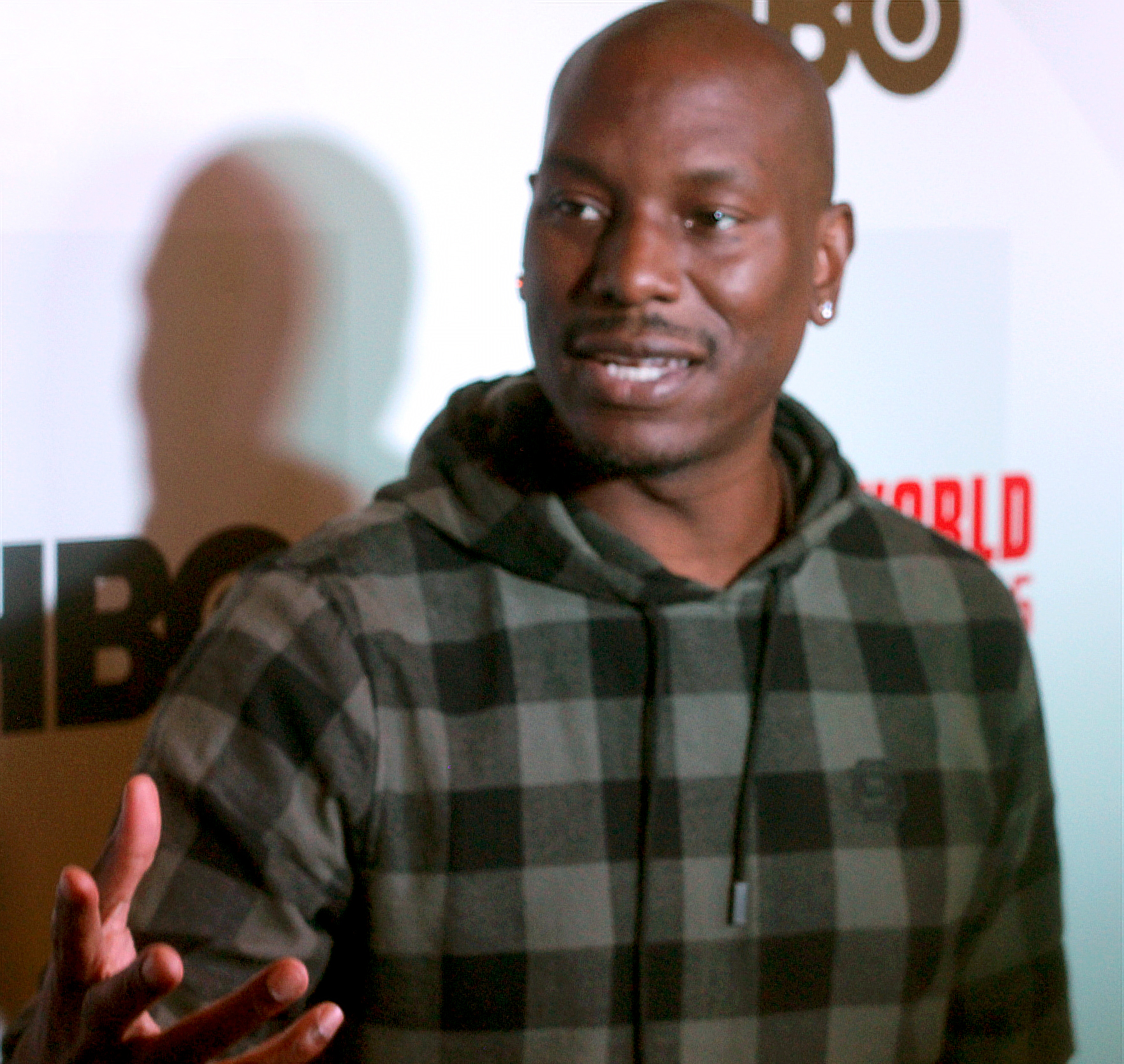 Urbanworld Film Festival Ambassador,Tyrese Gibson speaks about “Shame,” a Paul Hunter film produced by Denzel Washington premiering on 9/26/15.